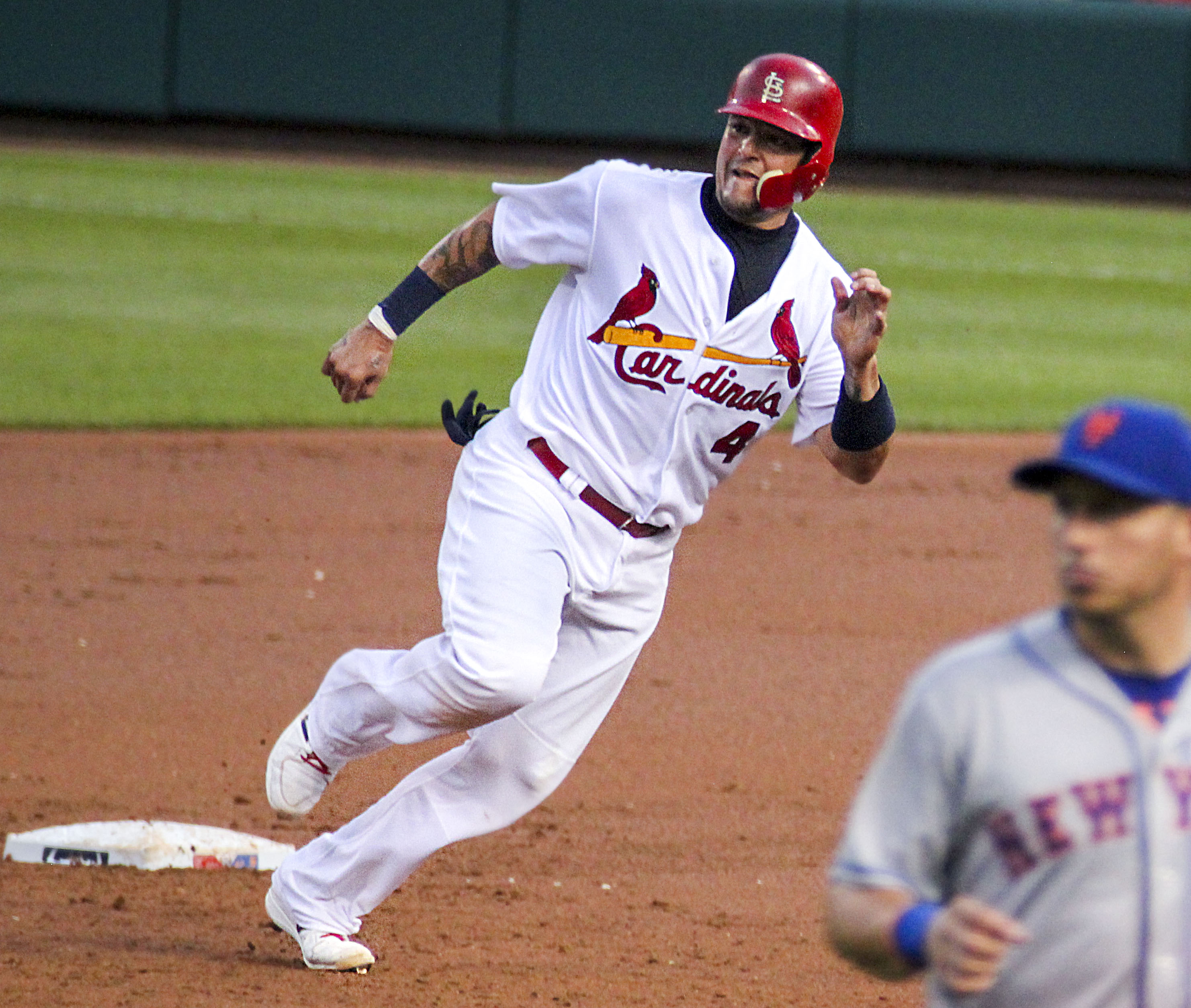 Cardinals catcher Yadi Molina rounds second.